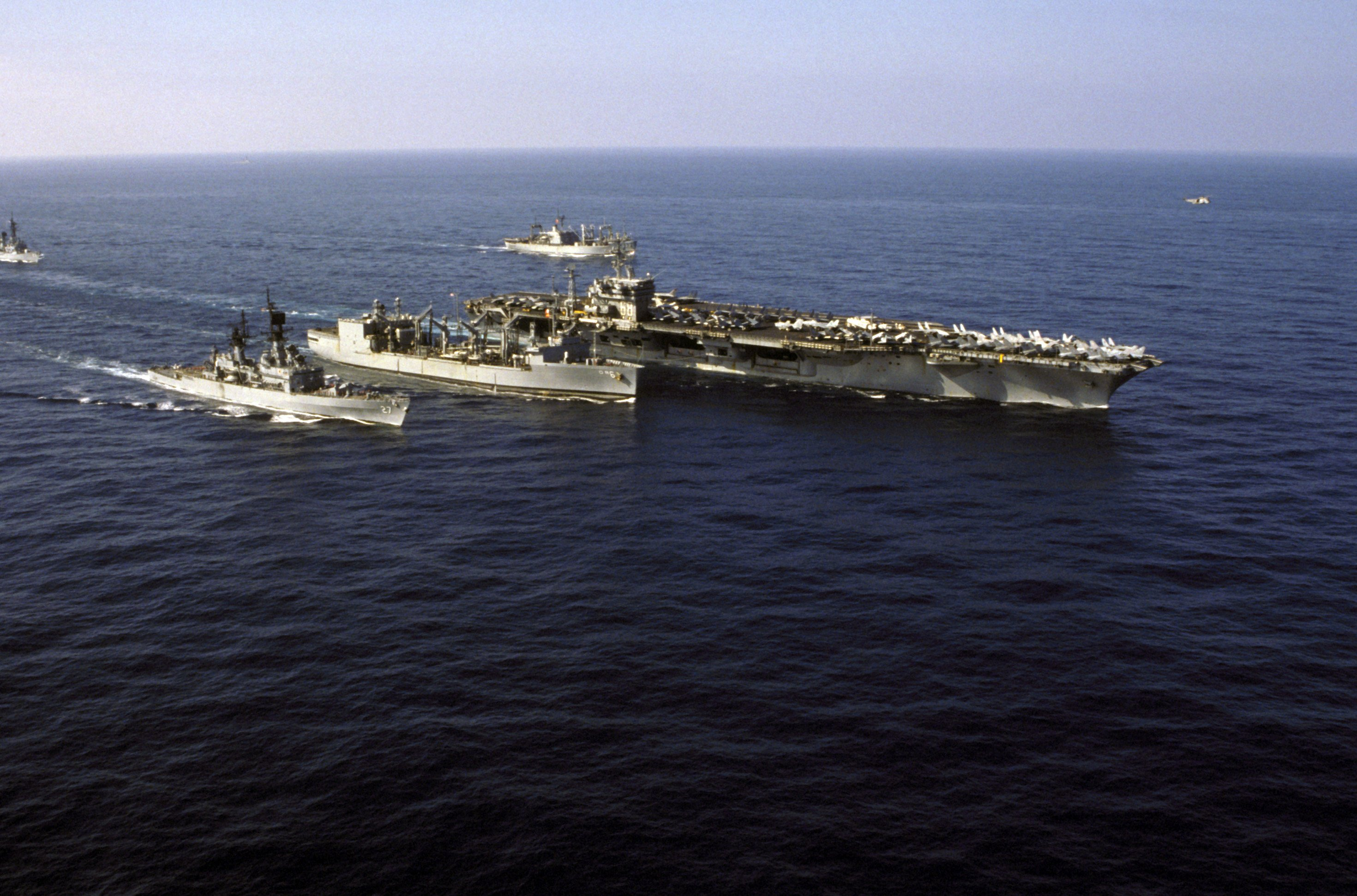 The U.S. Navy aircraft carrier USS Nimitz (CVN-68) participating in an underway replenishment with the replenishment oiler USS Kalamazoo (AOR-6) while underway off the coast of Beirut, Lebanon. The other ships escorting the Nimitz include, left to right: the guided missile destroyer USS Richard E. Byrd (DDG-23), the guided missile cruiser USS Josephus Daniels (CG-27), and the ammunition ship USS Nitro (AE-23). Nimitz, with assigned Carrier Air Wing 8 (CVW-8), was deployed to the Atlantic Ocean, the Mediterranean Sea, the Indian Ocean and the Pacific Ocean from 30 December 1986 to 2 July 1987.